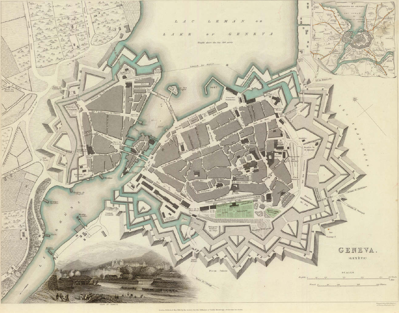 Plan of Geneva (Switzerland) and environs, showing the massive fortifications less than ten years before the start of their demolition in 1850.